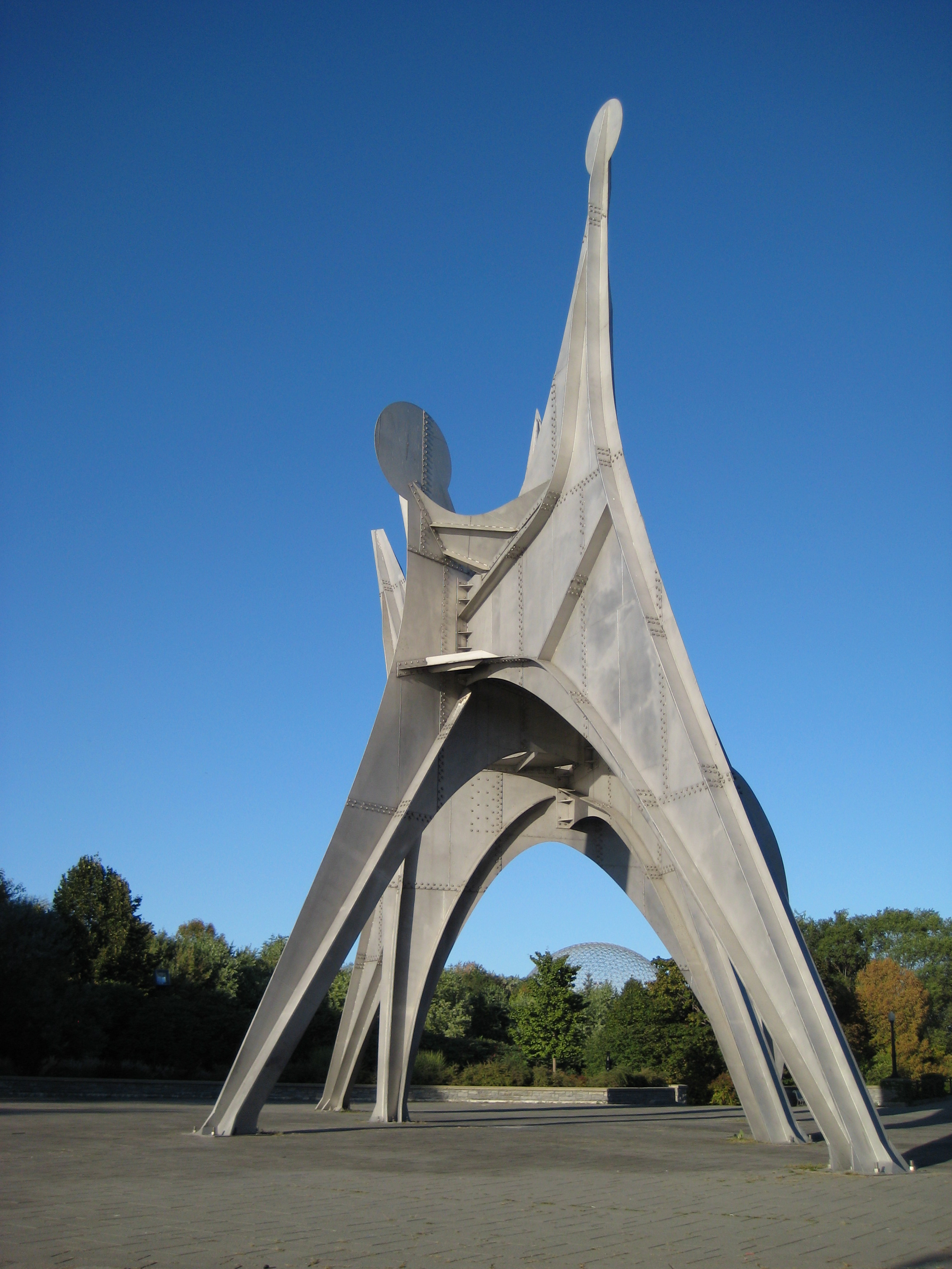 Sculpture Man by Alexander Calder for Expo 67